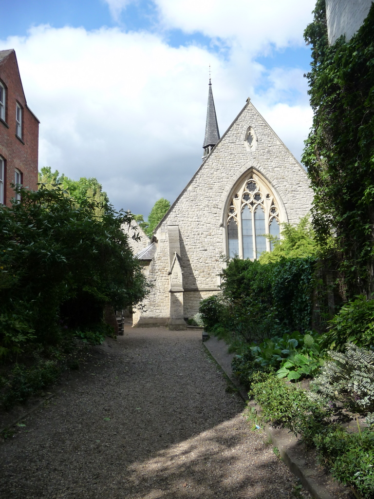 Rosslyn Hill Chapel, London NW3. The Rosslyn Hill Chapel was founded in 1692. It is licensed for marriages. 1670223